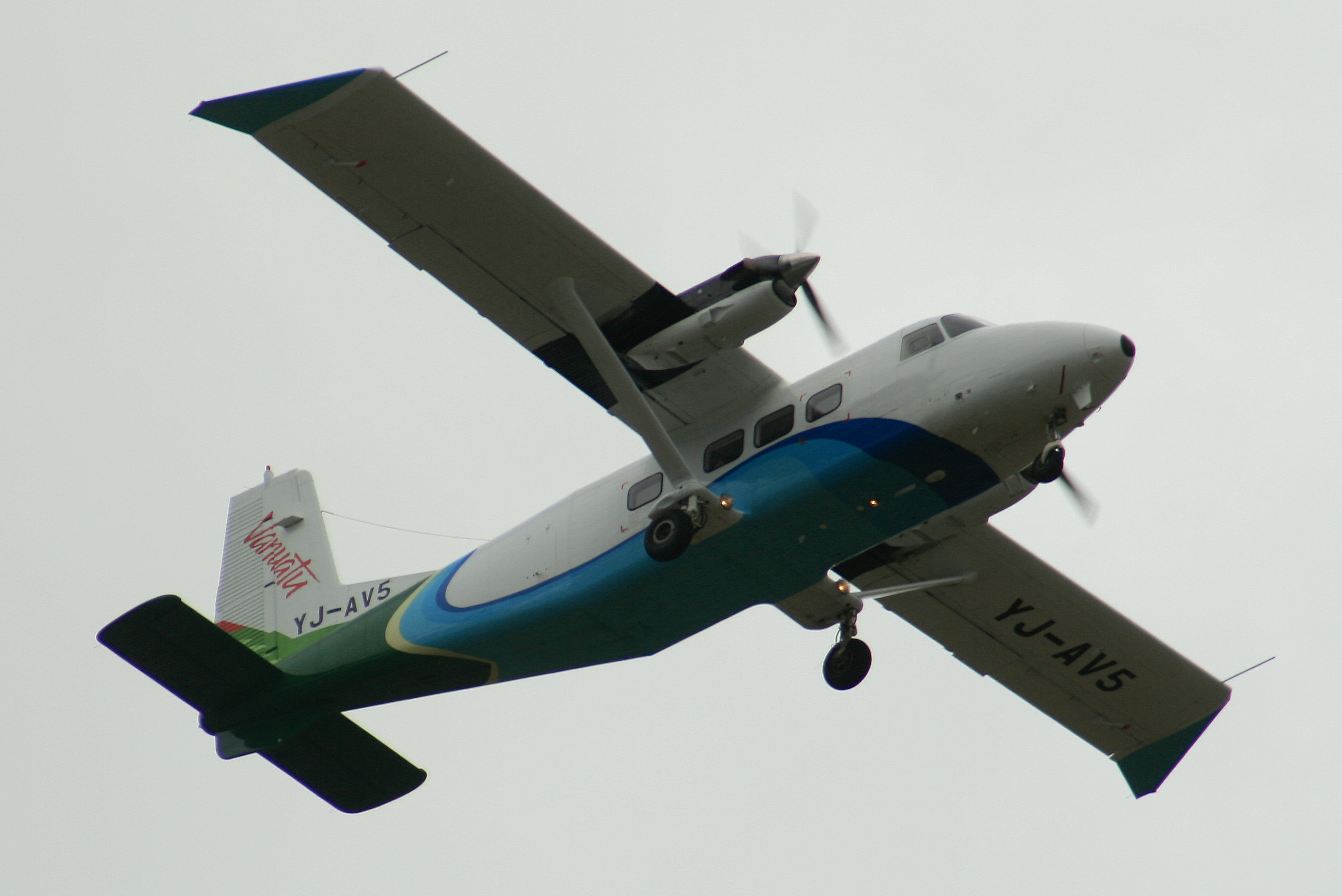 A Harbin Y-12 (IV) of Air Vanuatu climbs after taking off at Port Vila's Bauerfield International Airport. Digital photo of YJ-AV5 taken by YSSYguy on 27 October 2009 and uploaded for use in the Harbin Y-12 article.